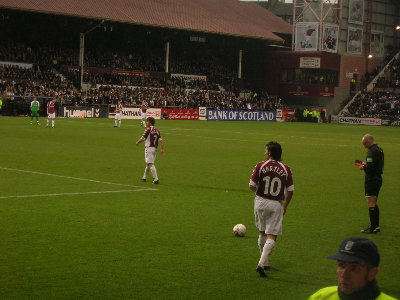 Hearts vs. Hibernian - SPL - 26/12/2006